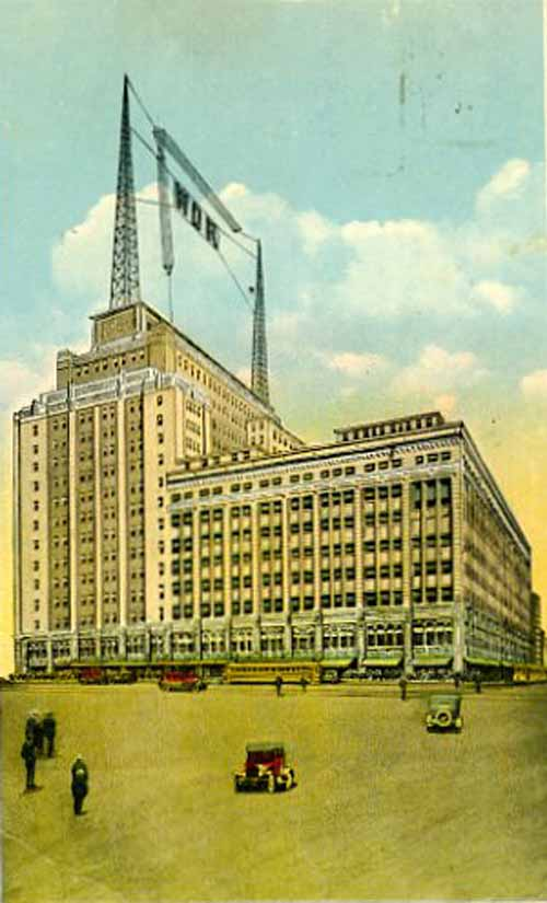 Old postcard showing Bamberger's Newark store with huge WOR-AM antenna on roof